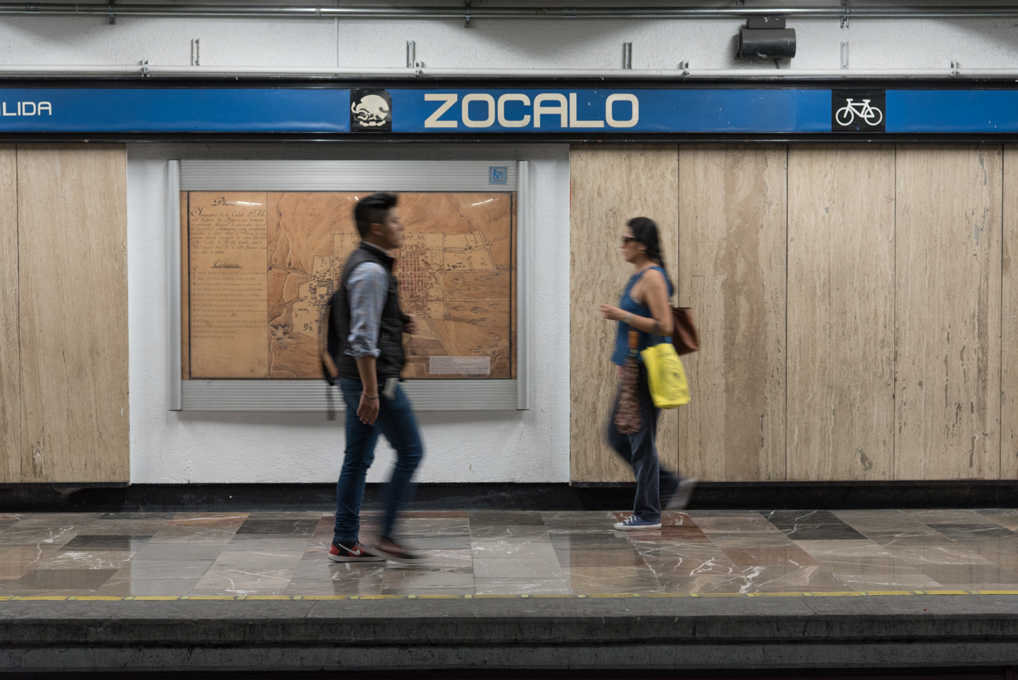 Platform at the Mexico City Metro Zócalo station, May 2018